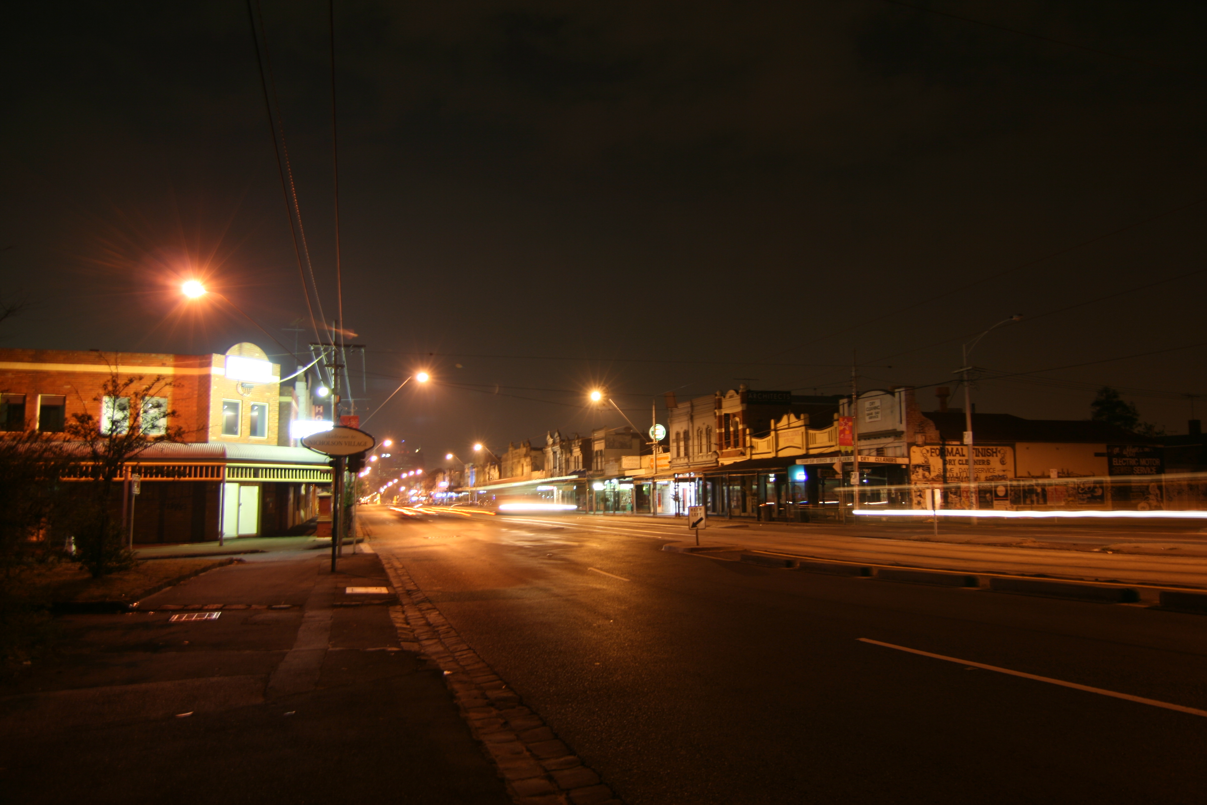 A long exposure of Nicholson Street.Nicholson Street, 2006